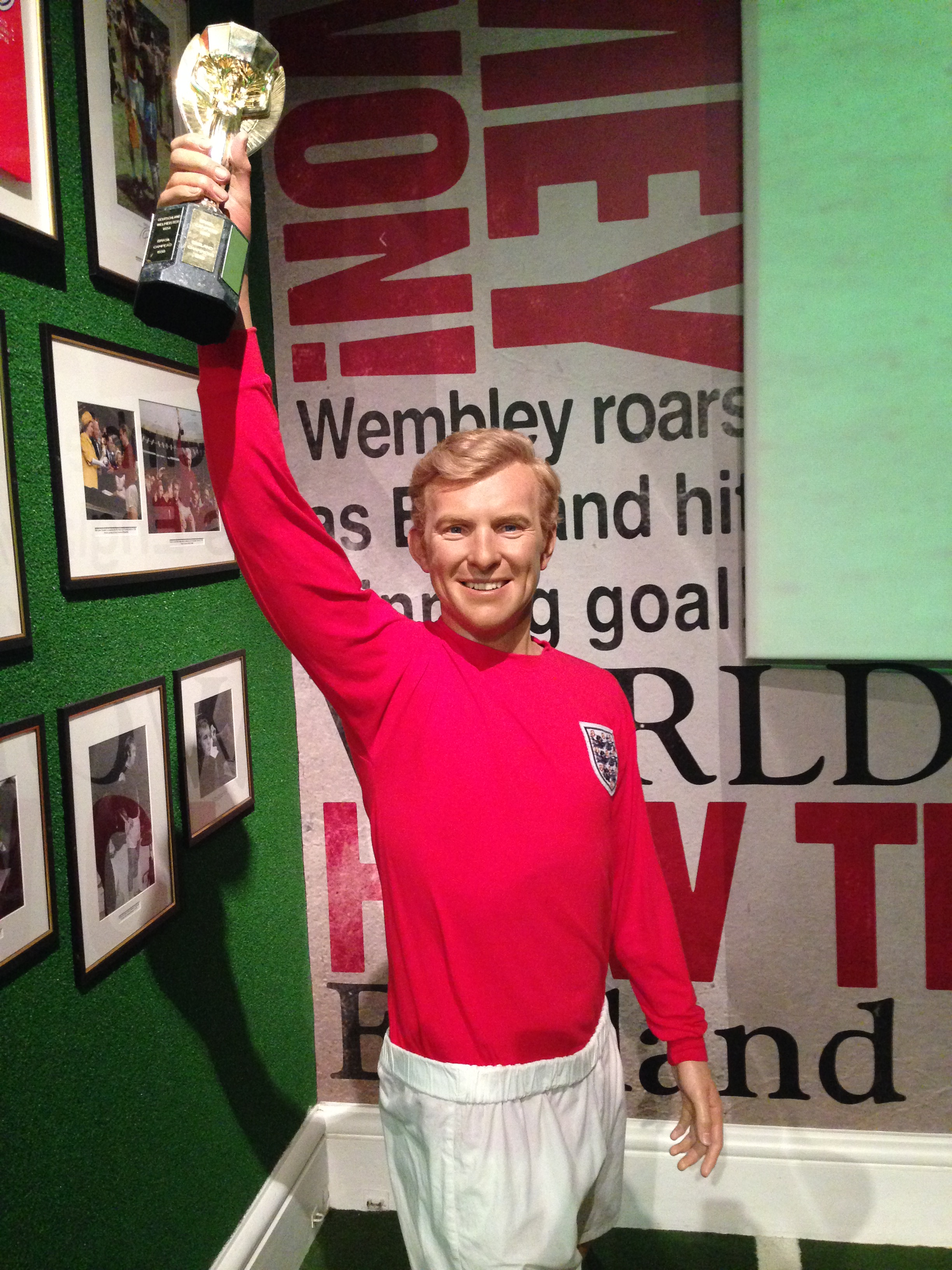 Bobby Moore at Madame Tussauds London - November 1st, 2016